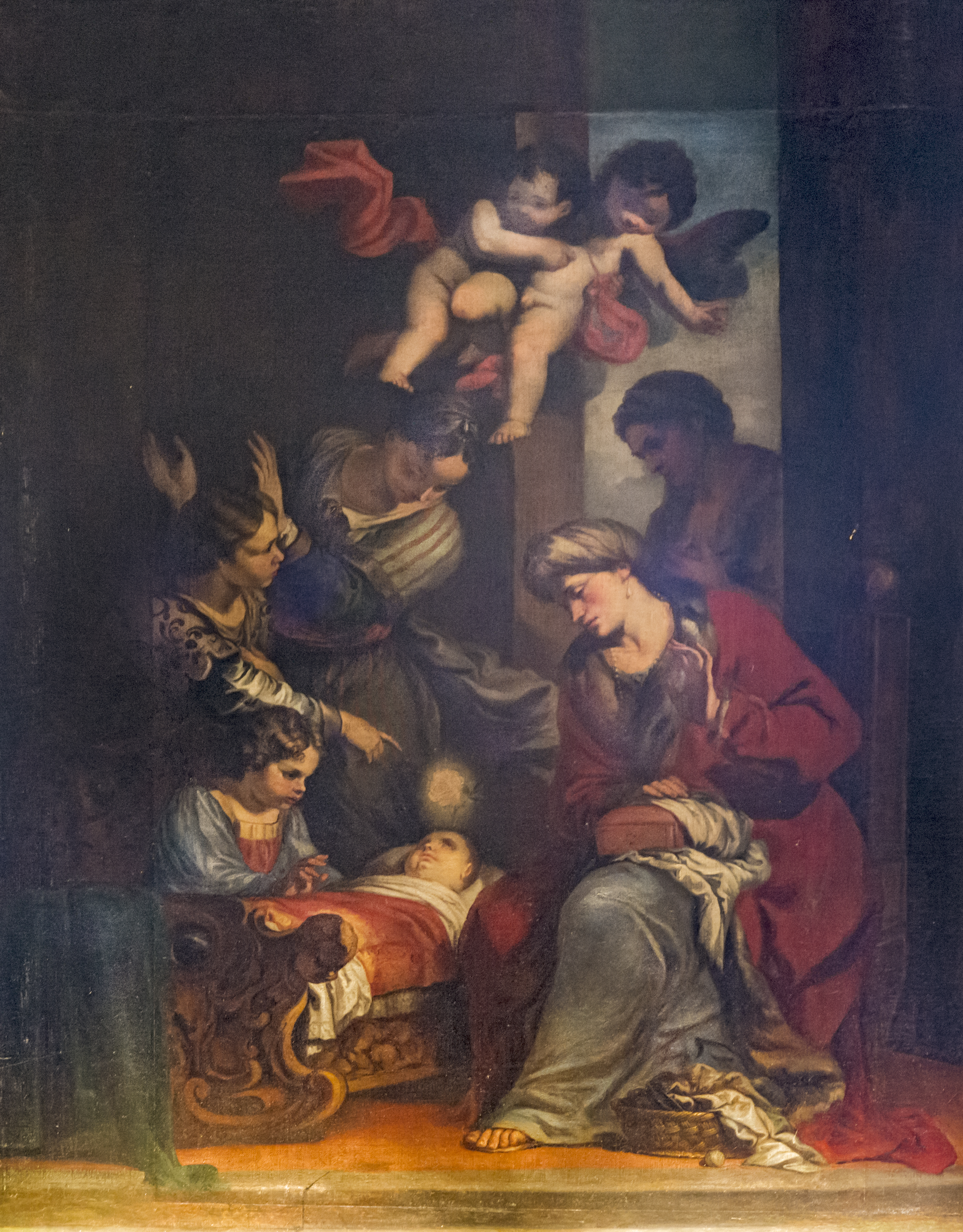 Santi Giovanni e Paolo in Venice. The birth of Santa Rosa de Lima . Oil on canvas by Francesco Zanella.